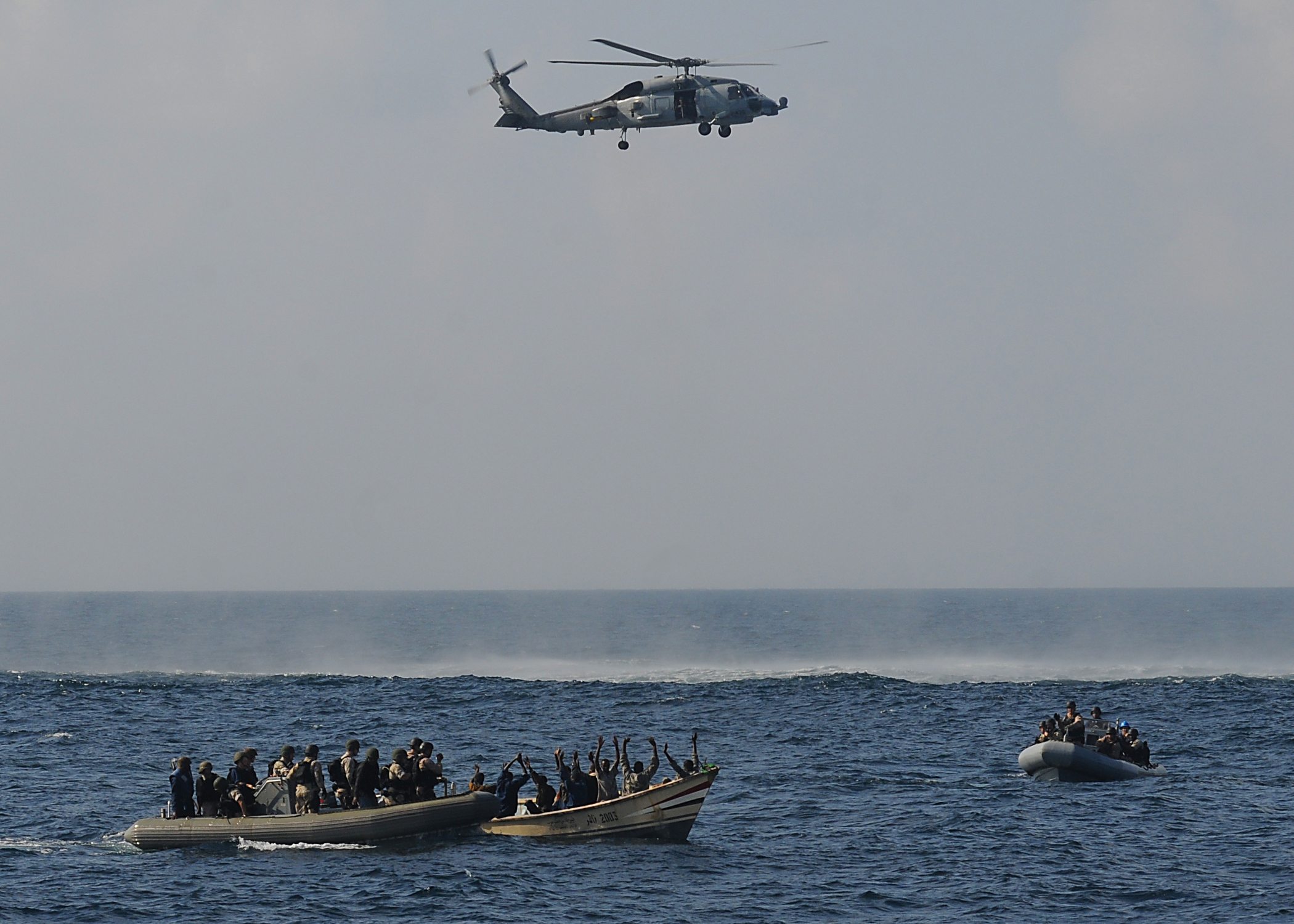 090211-N-1082Z-232 GULF OF ADEN (Feb. 11, 2009) Crew members from the Marshall Islands-flagged cargo ship, M/V Polaris, climb aboard the guided-missile cruiser USS Vella Gulf (CG-72) to identify suspected pirates apprehended by the Vella Gulf visit, board, search and seizure (VBSS) team. Vella Gulf is the flagship for Combined Task Force 151, a multi-national task force conducting counterpiracy operations to detect and deter piracy in and around the Gulf of Aden, Arabian Gulf, Indian Ocean and Red Sea. It was established to create a maritime lawful order and develop security in the maritime environment. (U.S. Navy photo by Mass Communications Specialist 2nd Class Jason R. Zalasky/Released)